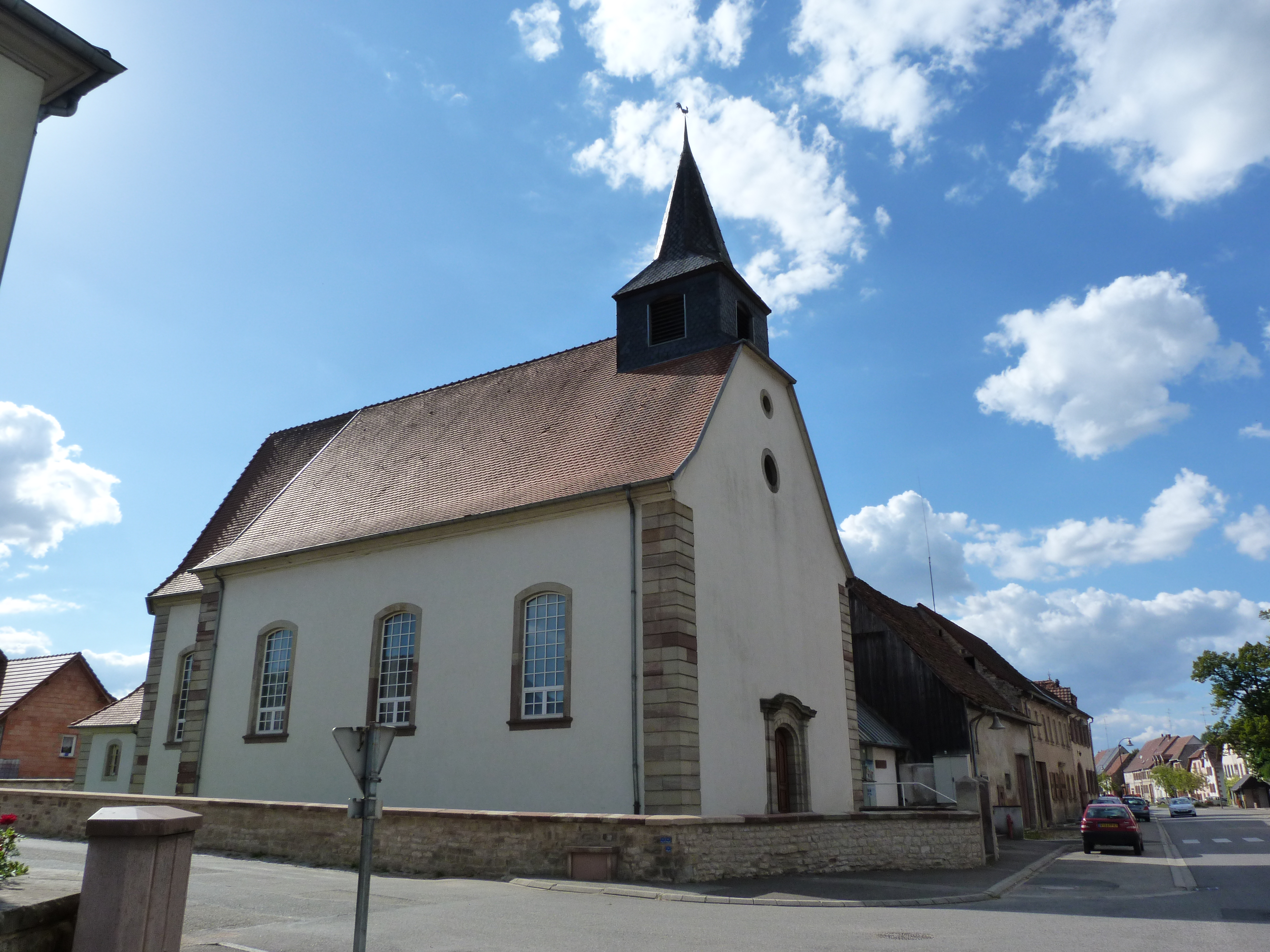 This building is indexed in the Base Mérimée, a database of architectural heritage maintained by the French Ministry of Culture, under the references IA67005864 and PA00084779 .